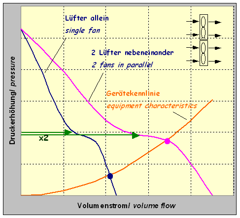 The parallel fan arrangement leads to an increase of the volume flow. Example: Parallel arrangement of two identical axial fans. The fan characteristics of the 2-fan-arrangement was calculated from the single fan characteristics by doubling the volume flow.